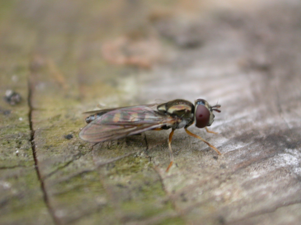 Platycheirus scutatus s.l., female, Hellerup, Denmark, 1 September 2005